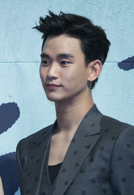 KBS "The Producers" press conference, 11 May 2015. Kim Soo-hyun.